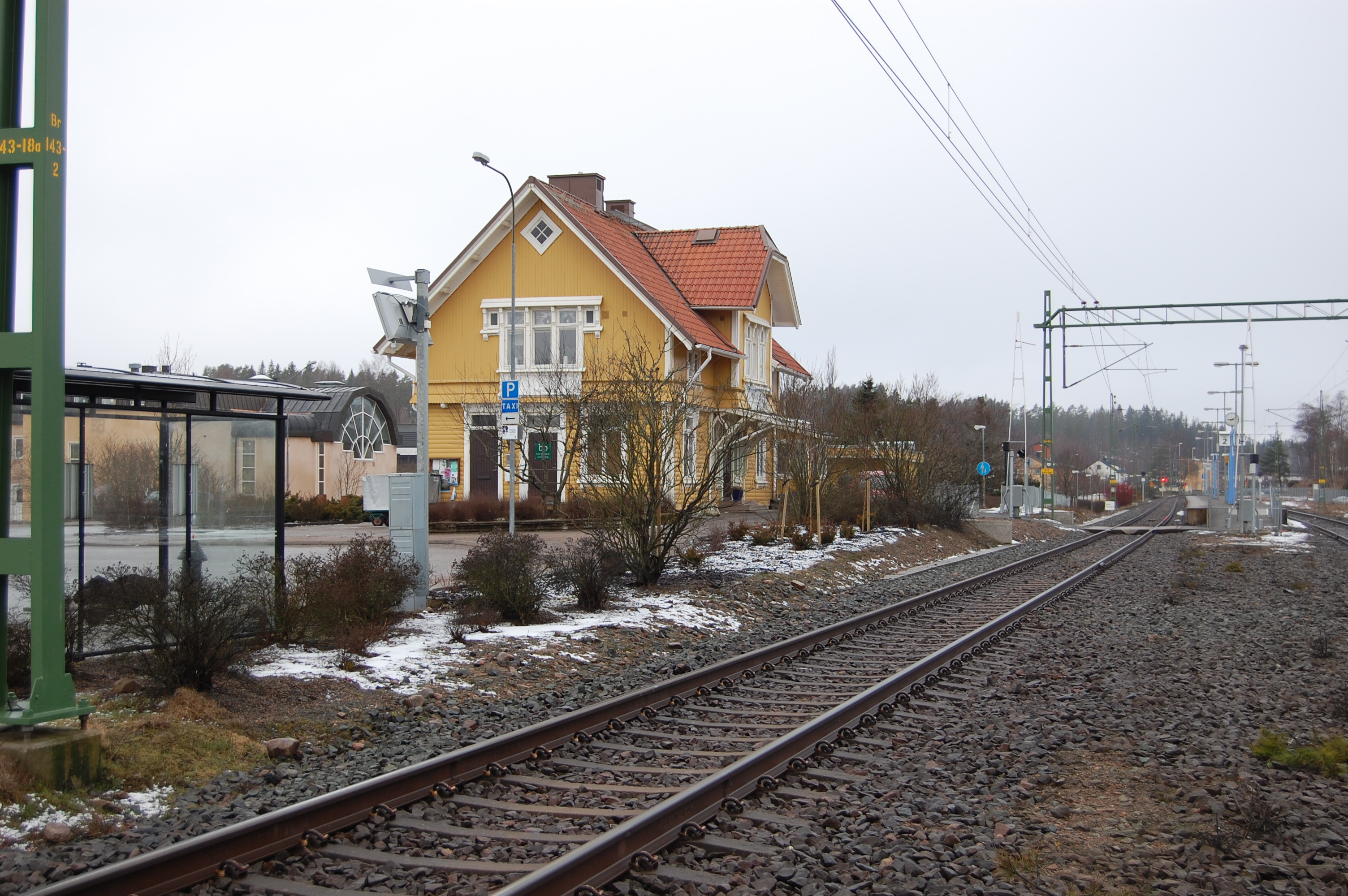 Gnosjö railway station